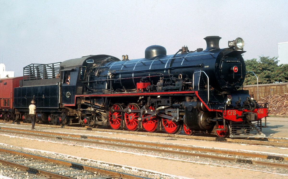 Caminho de Ferro de Benguela (CFB or Benguela railway) coal fired 11th Class 4-8-2 no. 401 at Lobito Station in Angola. Built to the design of the South African Class 19D, these locomotives were wood or coal fired, depending on where they were operating, hence the elevated tender sides.